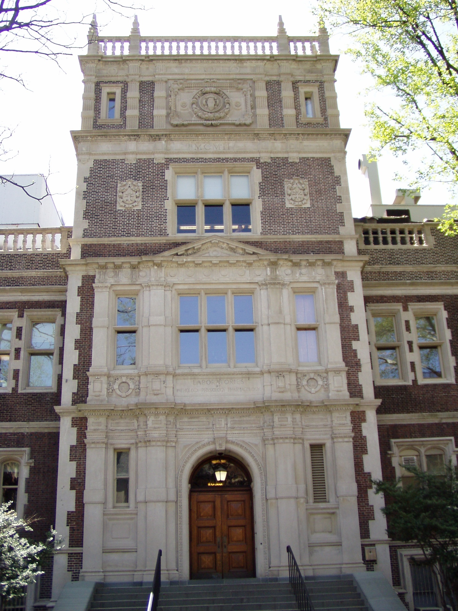 Taken in Philadelphia, Pennsylvania, in April 2006. John Morgan Hall at the University of Pennsylvania School of Medicine. The inscription above the door reads Laboratories of Pathology Physiology Pharmacology.